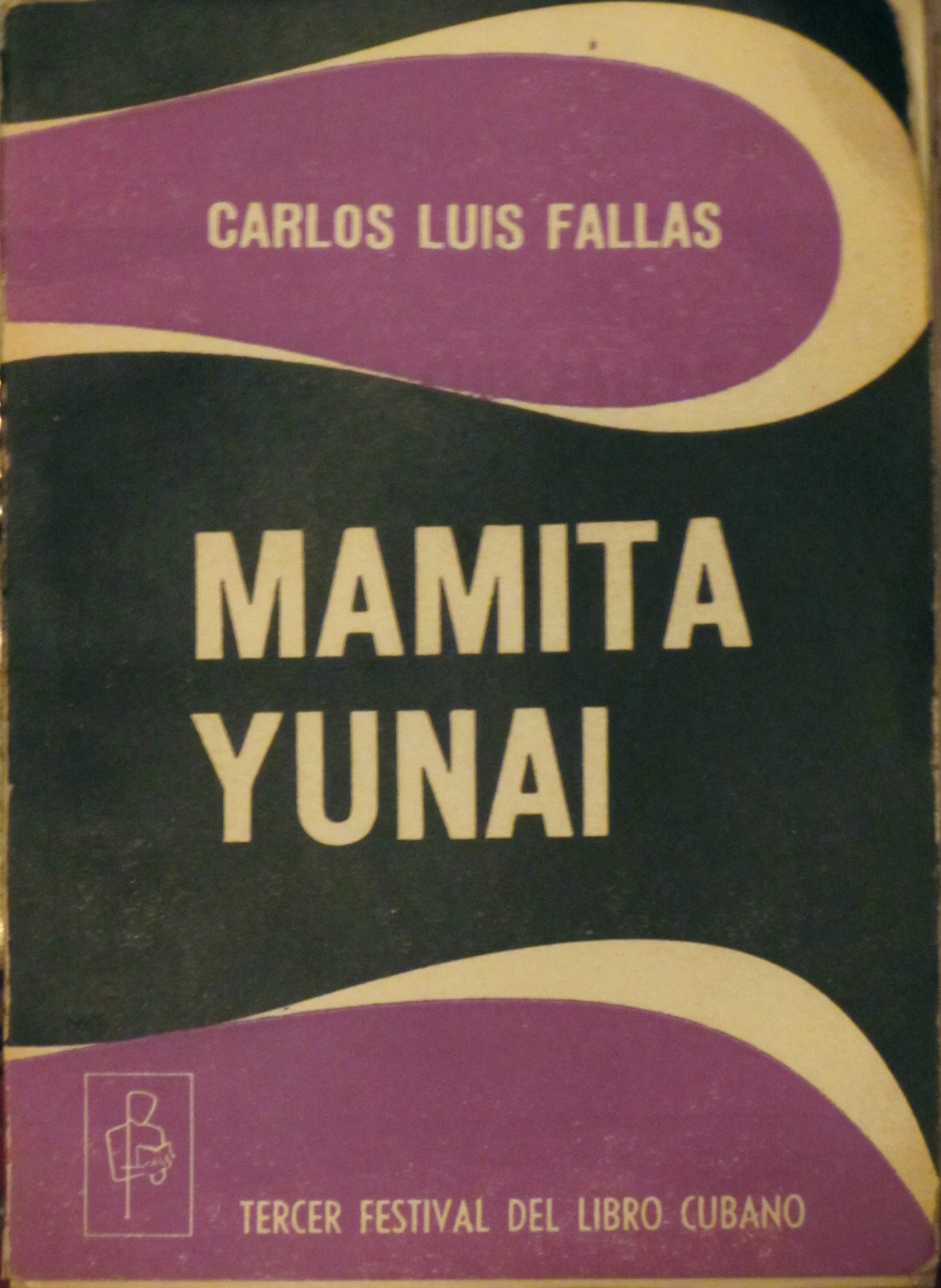 Cover of a Cuban cheap edition of Costa Rican Carlos Luis Fallas's novel Mamita Yunai